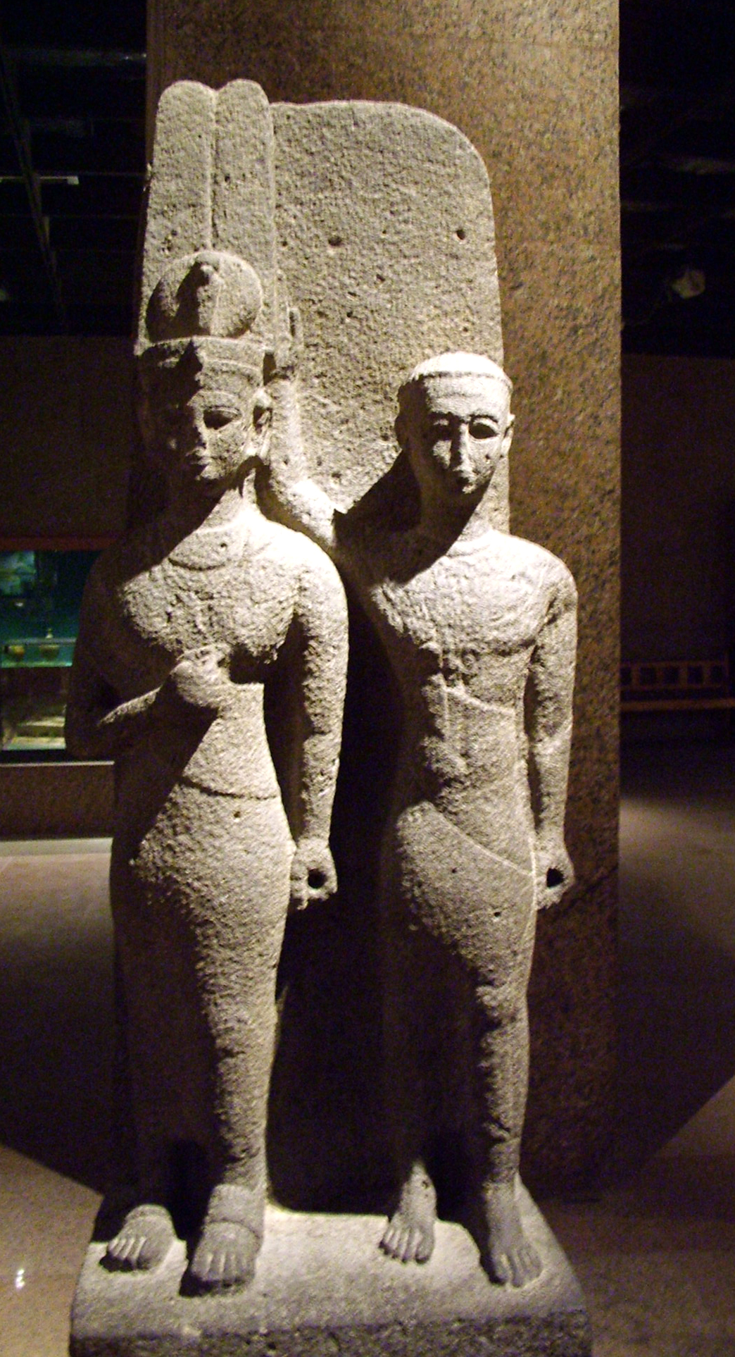 Shanadakheto meroitic queen